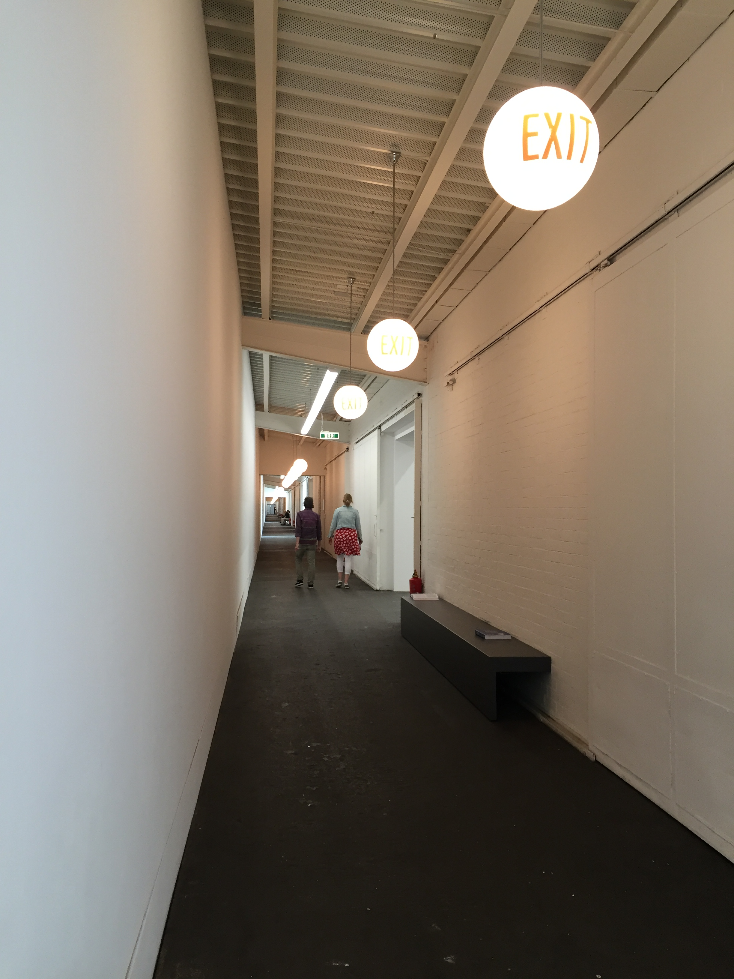 Views of the Rieckhallen of the Hamburger Bahnhof – Museum für Gegenwart – Berlin museum in Berlin, Germany.